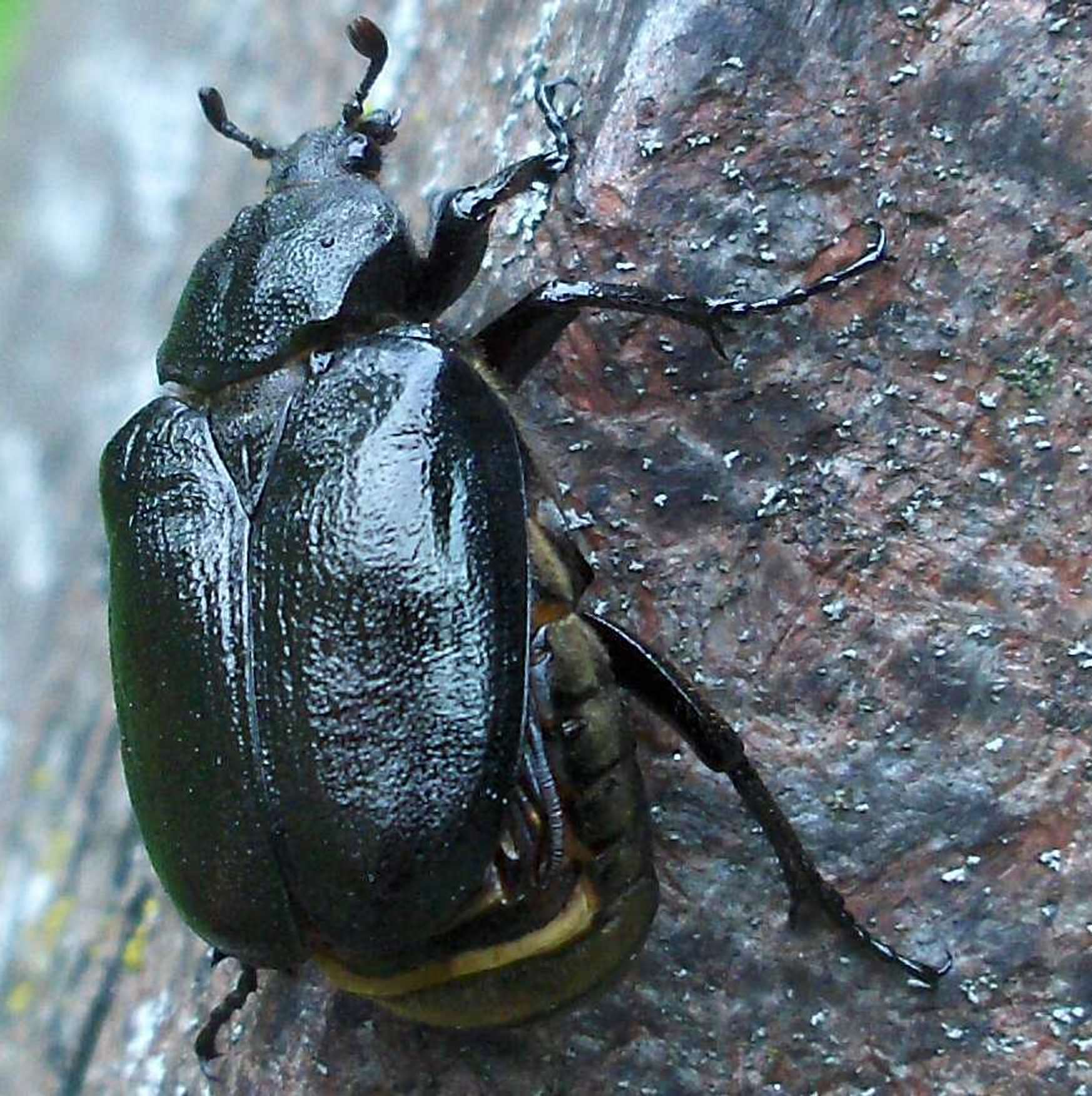 First picture of Norwegian Hermit beetle (Osmoderma eremita) from Tønsberg, Norway. Female specimen.